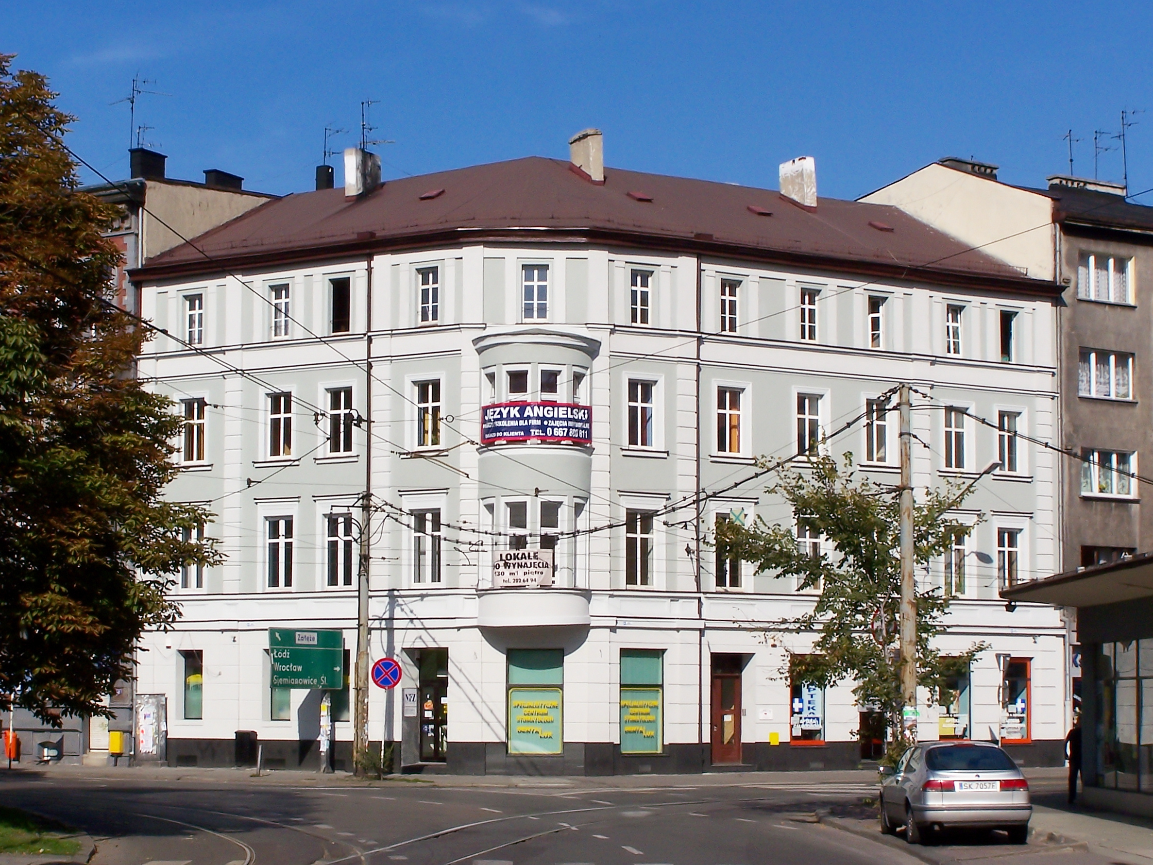 Tenement house in Katowice (Poland).